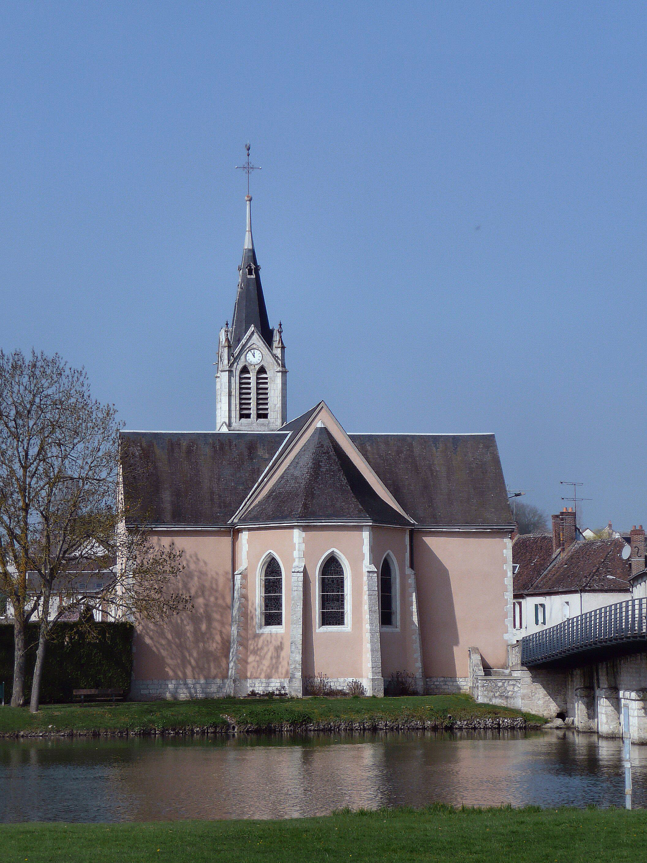 Church of St Denis